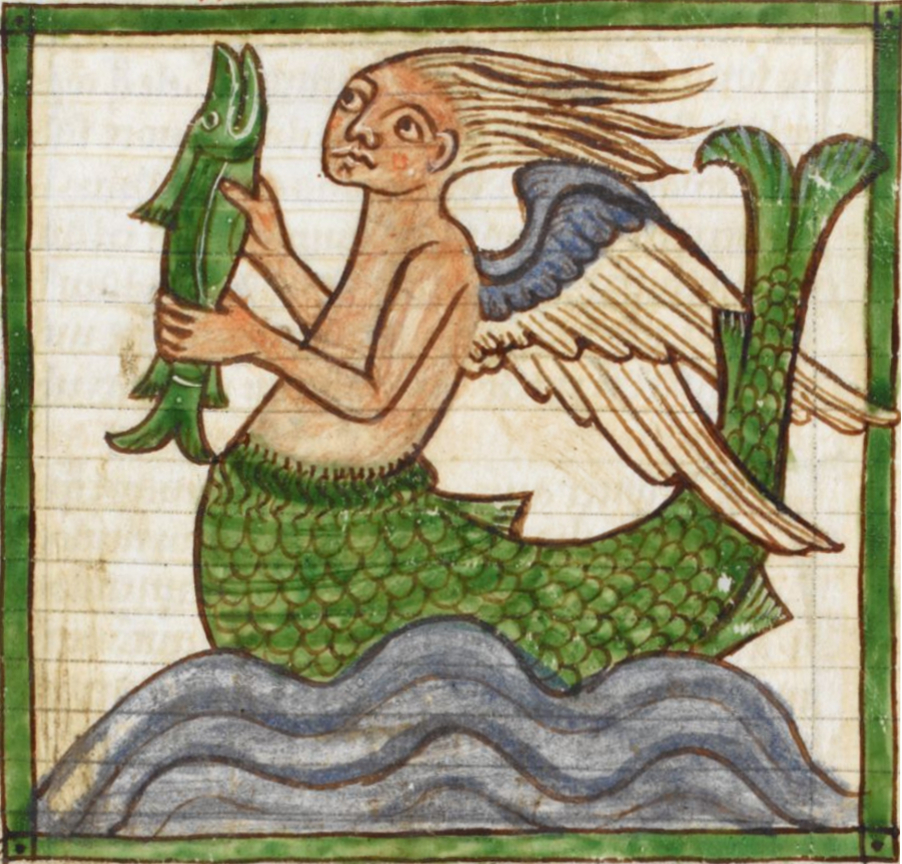 Siren - Bestiary Harley MS 3244, ff 36r-71v